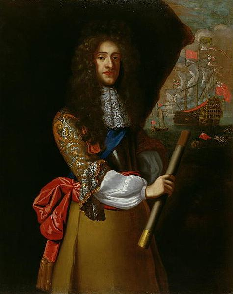 James II of England